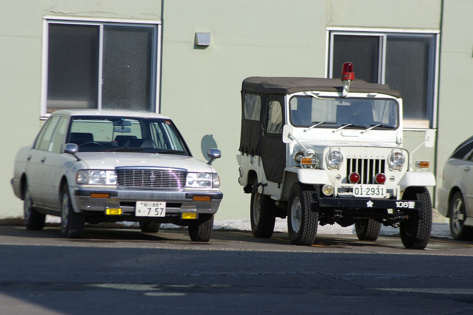 Mitsubishi Jeep & Toyota Crown, JGSDF Military police vertion.